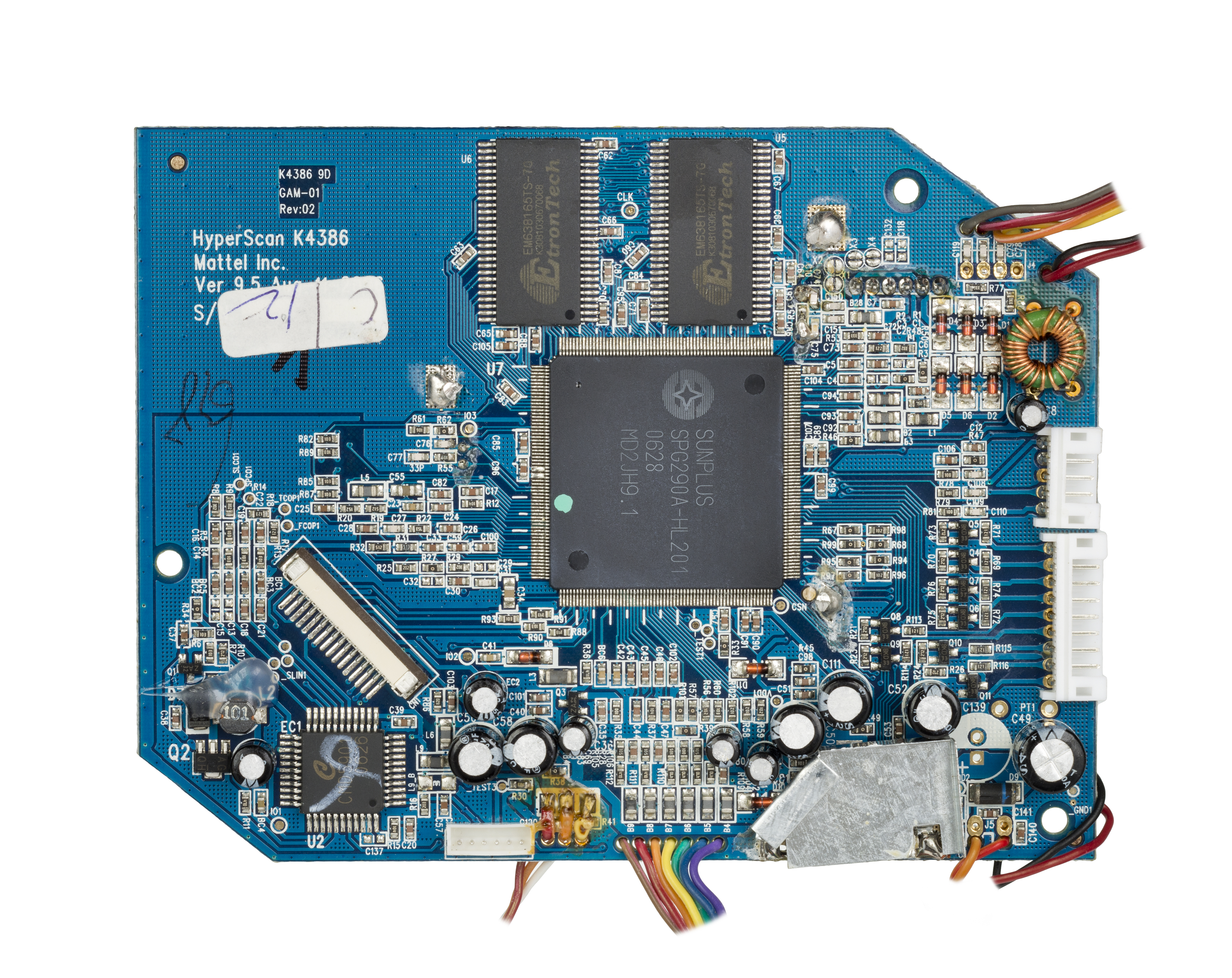 The motherboard for the Mattel HyperScan, a video game console released in 2006. The HyperScan is based off a Sunplus SPG290 system-on-a-chip. A low-cost ($69.99 at launch) and low-powered system, this console was aimed more at the toy market than as an actual video game system. The main feature of the console was its use of RFID collectible cards that allowed for extra characters and abilities in its games. Few games were sold, and the system was discontinued by Mattel within a year.